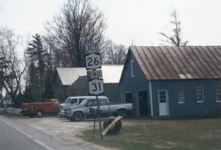 Signage for the eastern terminus of New York State Route 31 at New York State Route 26 in Vernon.